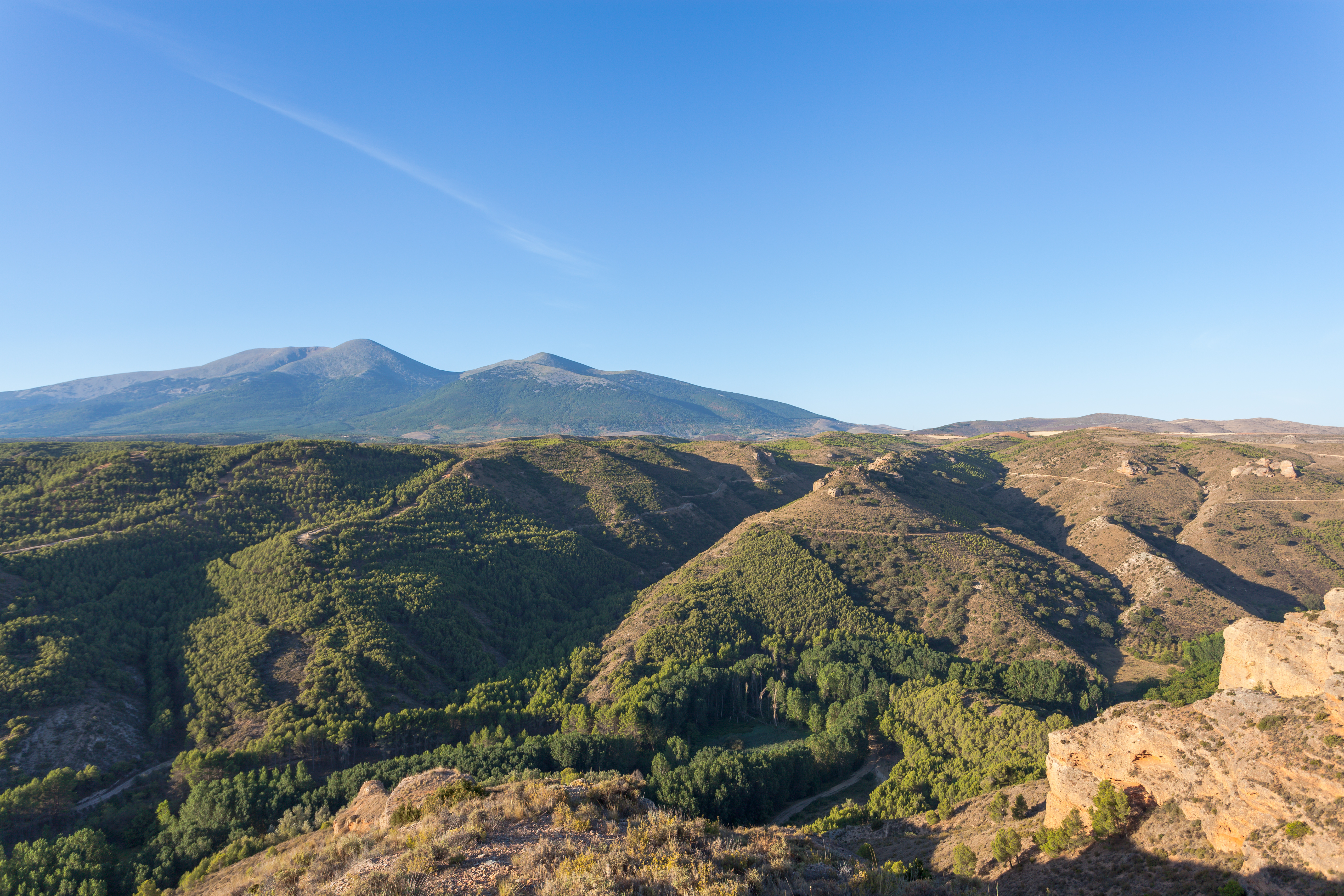 Moncayo Sierra, Ágreda, Spain